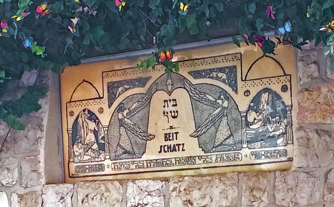 Boris Schatz's house in Jerusalem